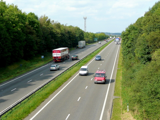 A38 trunk road near Swanwick Looking north on its way to Alfreton and the M1.